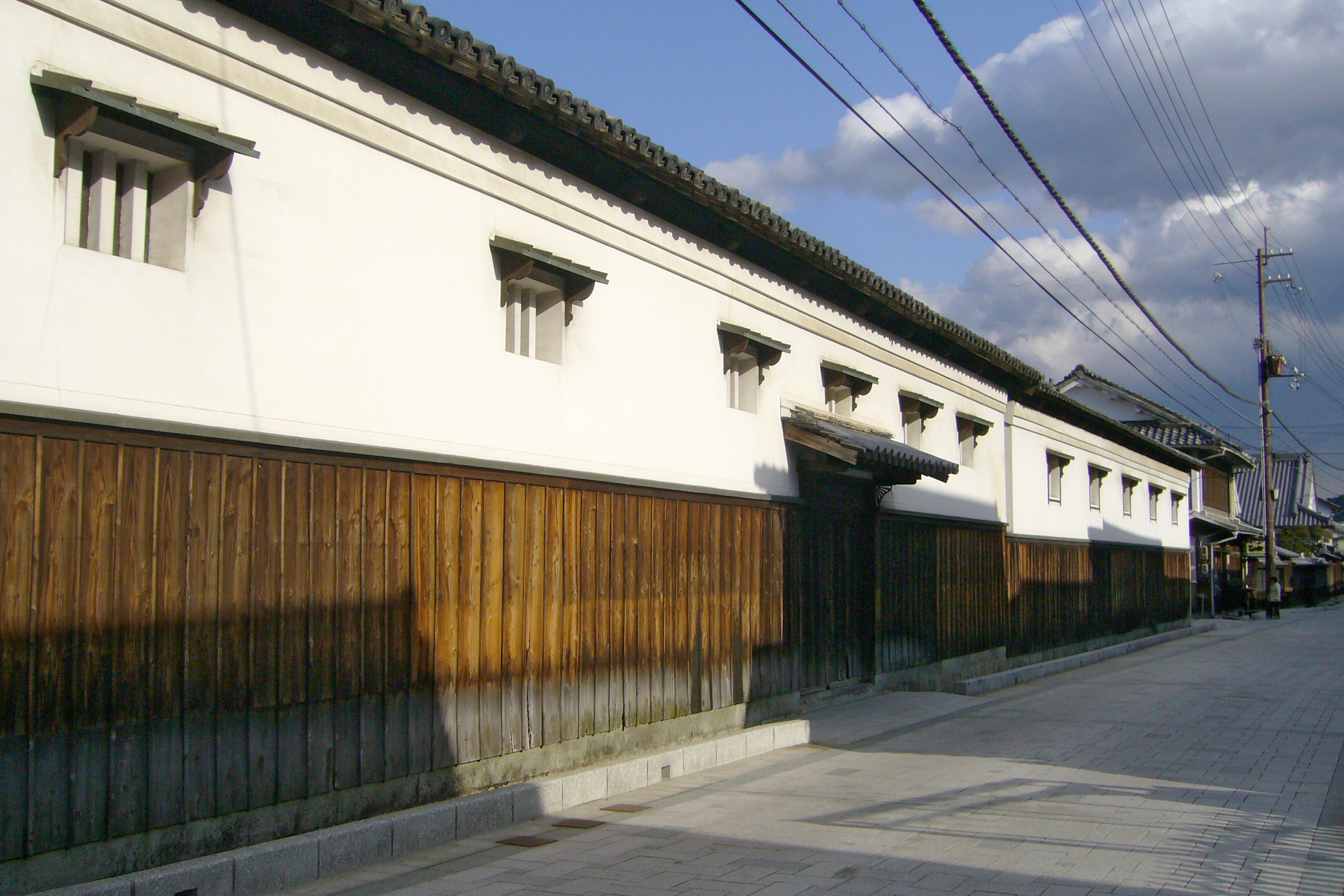 Okudo Sake Museum in Sakoshi, Ako, Hyogo prefecture, Japan